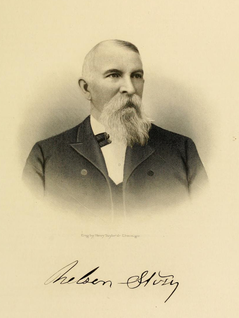 Nelson Story, Bozeman, Montana circa 1900 from (1900) Progressive Men of the State of Montana, Chicago: A.W. Bowen and Co.